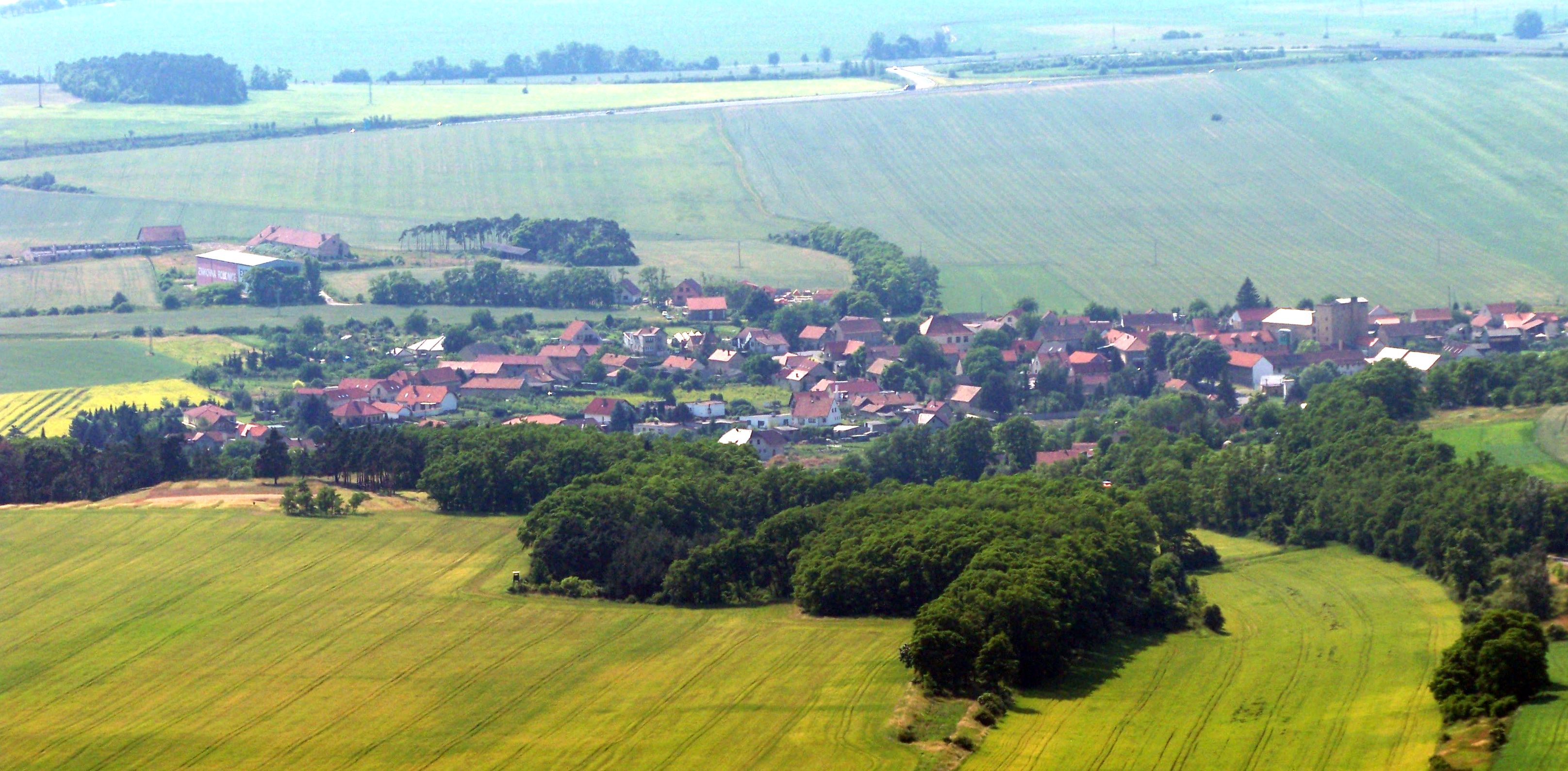 Kleneč, Litoměřice District,Ústí nad Labem Region, the Czech Republic. A view from Říp Mountain.